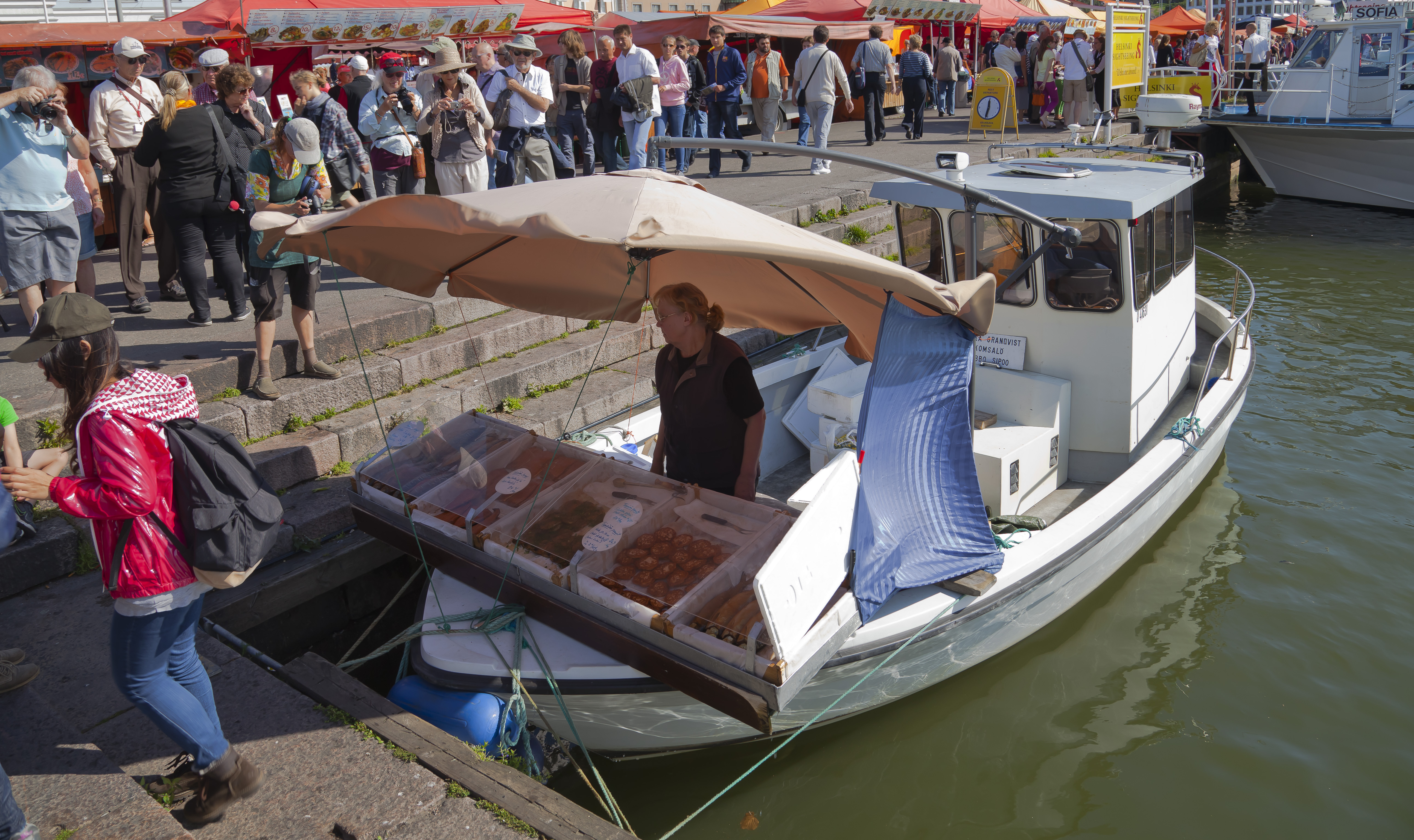 South Harbour, Helsinki, Finnland